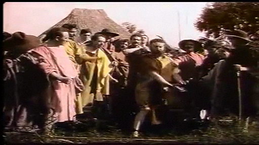 Screenshot :Il ratto delle sabine[Il ratto delle Sabine (film 1910)] - The Rape of the Sabine Women (1910) This frame comes from the Dutch version of the film (color):Sabijnsche Maagdenroof.